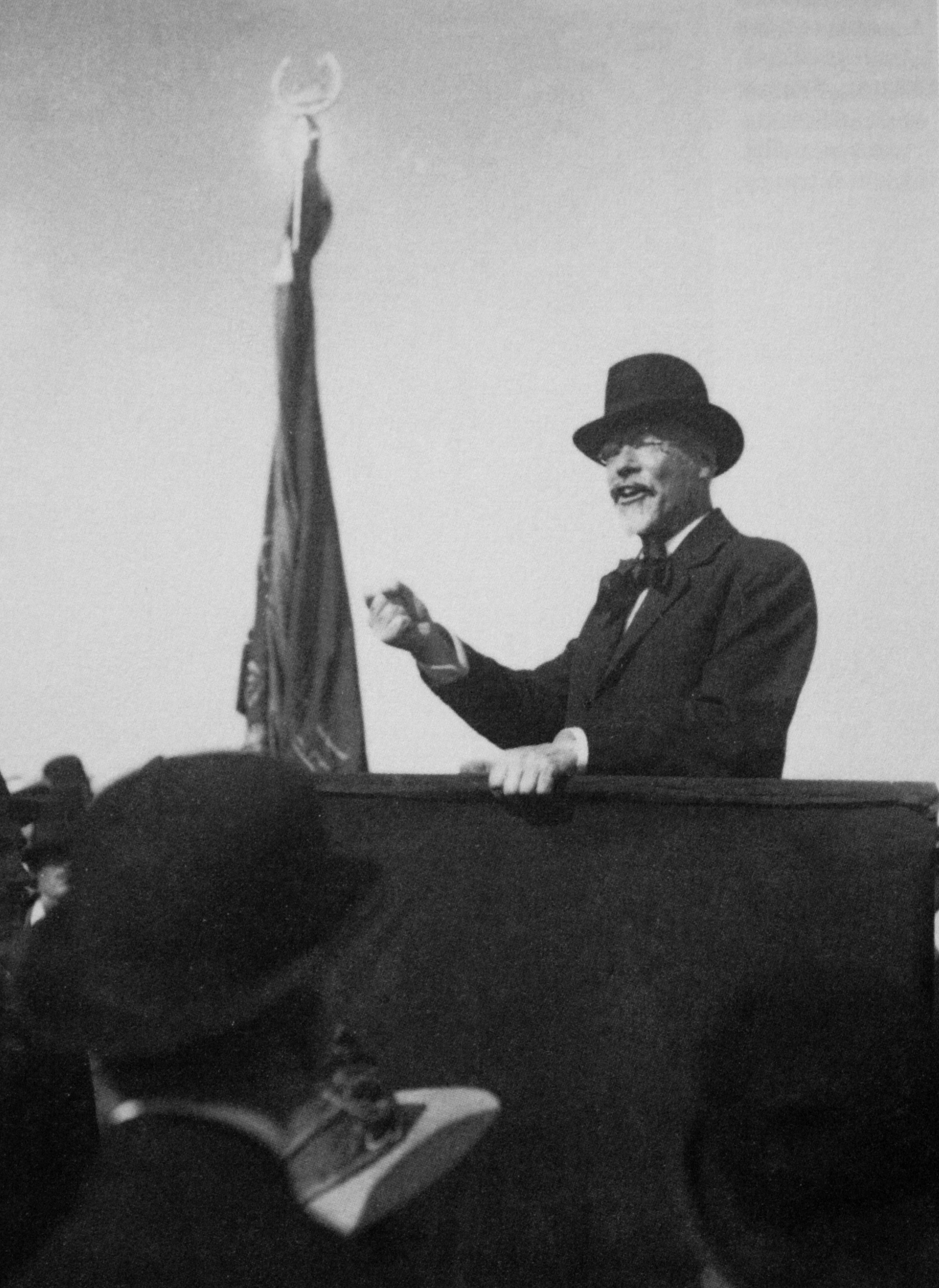 Swedish anarchist Hinke Bergegren (1861-1936) speaking in front of crowd.